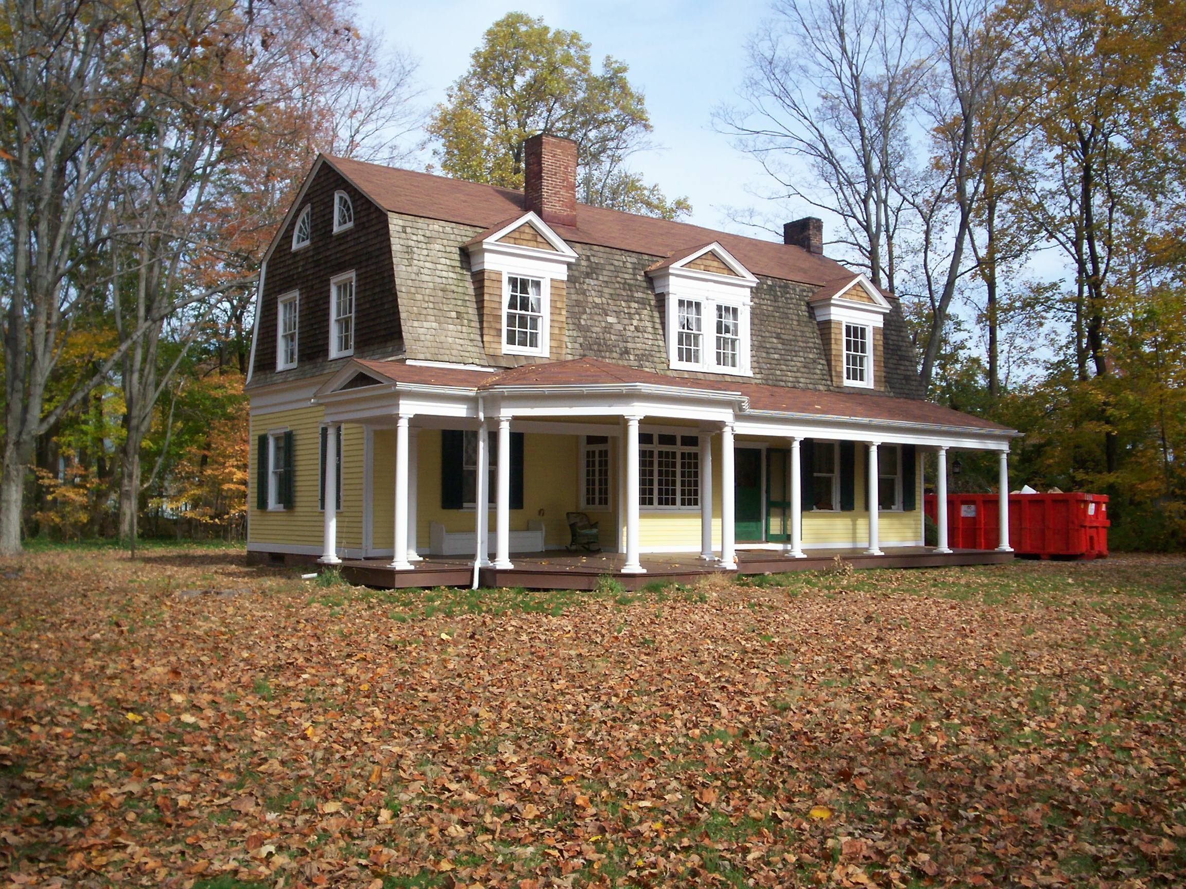 Tulipwood home in Somerset, Franklin Township, New Jersey, now preserved by the Meadows Foundation.